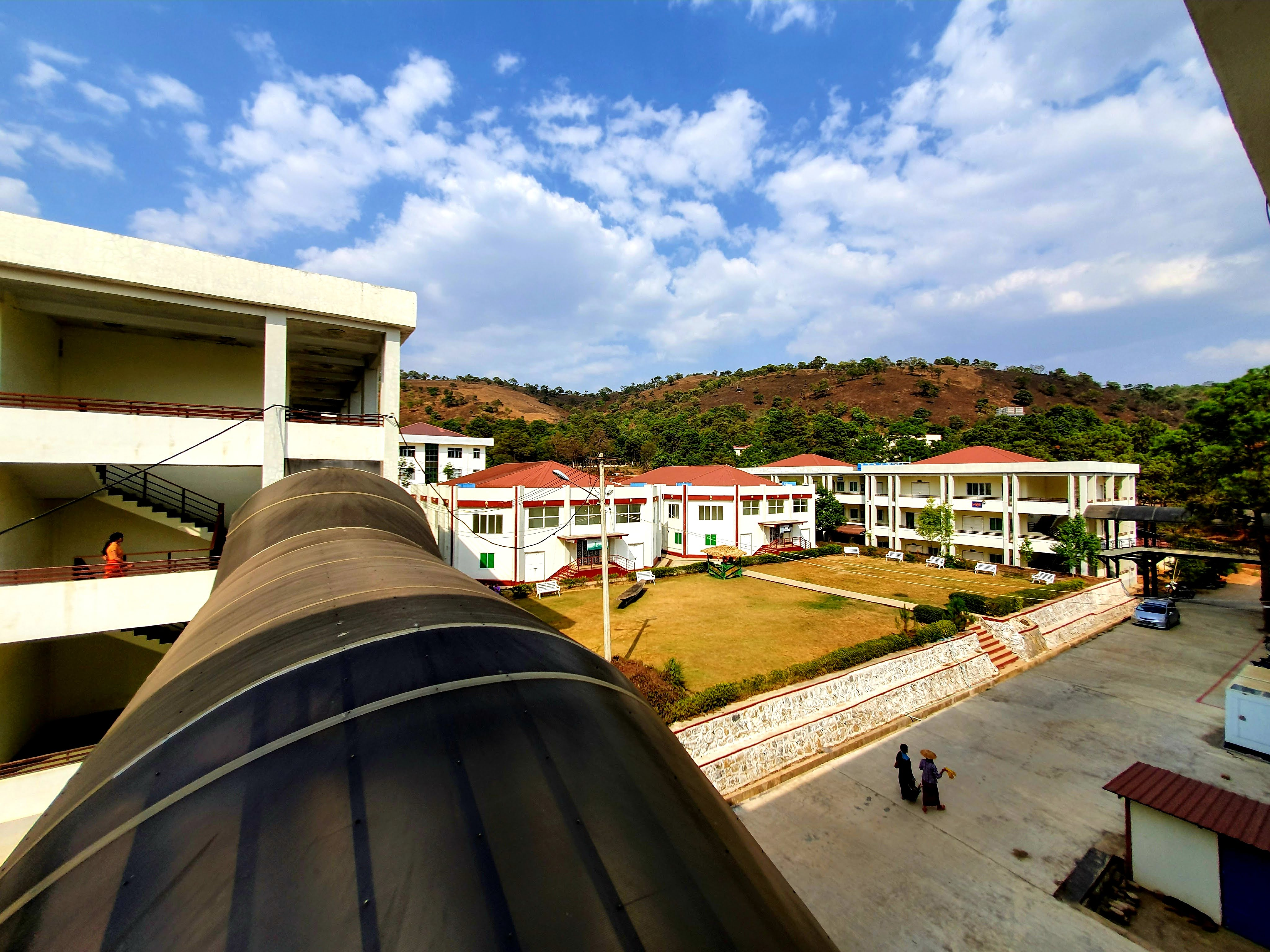 The view of the lawn from the 3rd floor